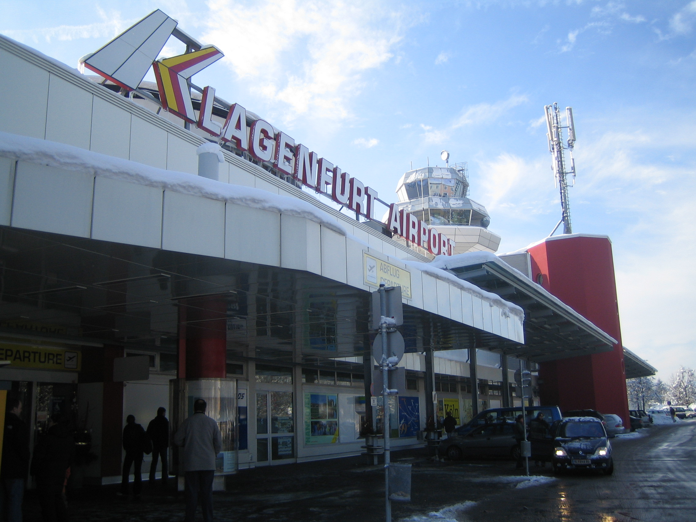 Klagenfurt Airport (KLU), departure hall